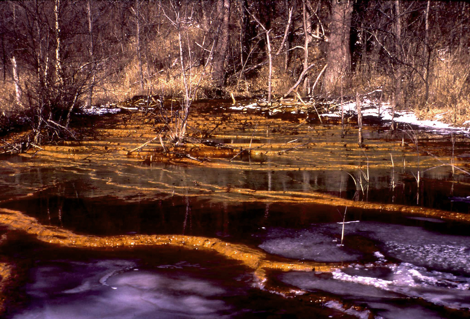 Mine drainage from Ohio (USA) showing ferrihydrite precipitate